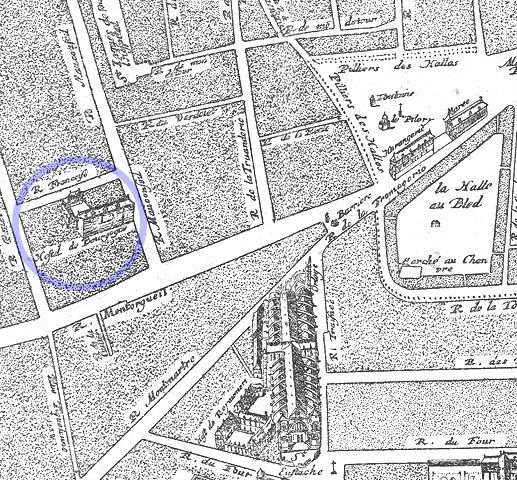 The Hôtel de Bourgogne as depicted on the 1652 map of Paris by Gomboust